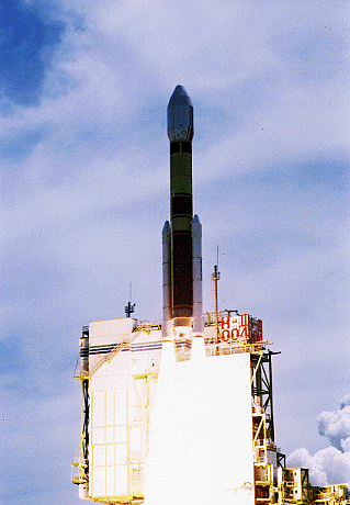 H-2 rocket (with ADEOS payload)